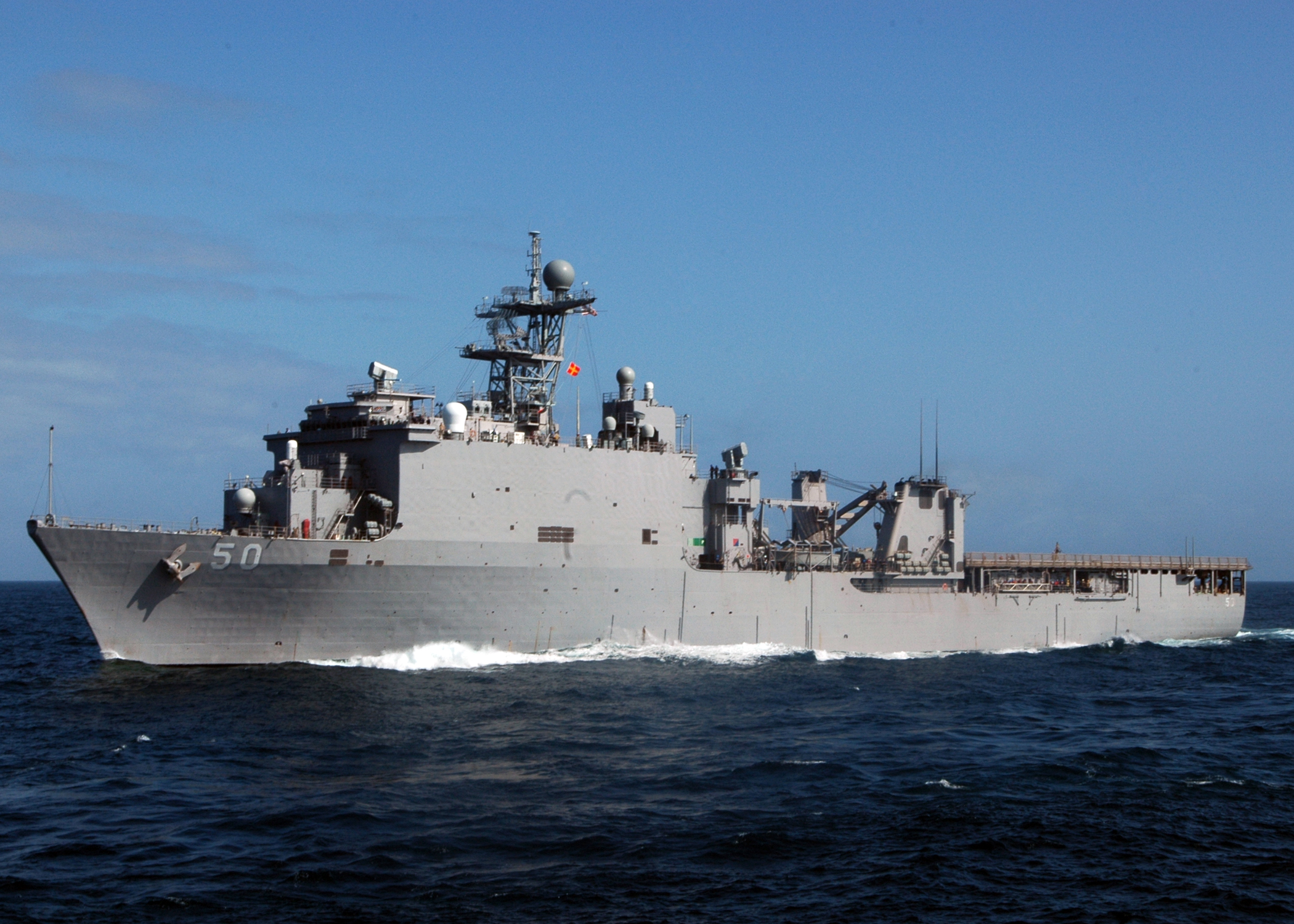 INDIAN OCEAN (Oct. 7, 2007) - Dock landing ship USS Carter Hall (LSD 50) approaches Military Sealift Command fleet replenishment oiler USNS Tippecanoe (T-AO 199) for an underway replenishment. Porter is conducting maritime operations in the 5th Fleet area of operations with Kearsarge Strike Group. U.S. Navy photo by Mass Communication Specialist 3rd Class Patrick Gearhiser (RELEASED)